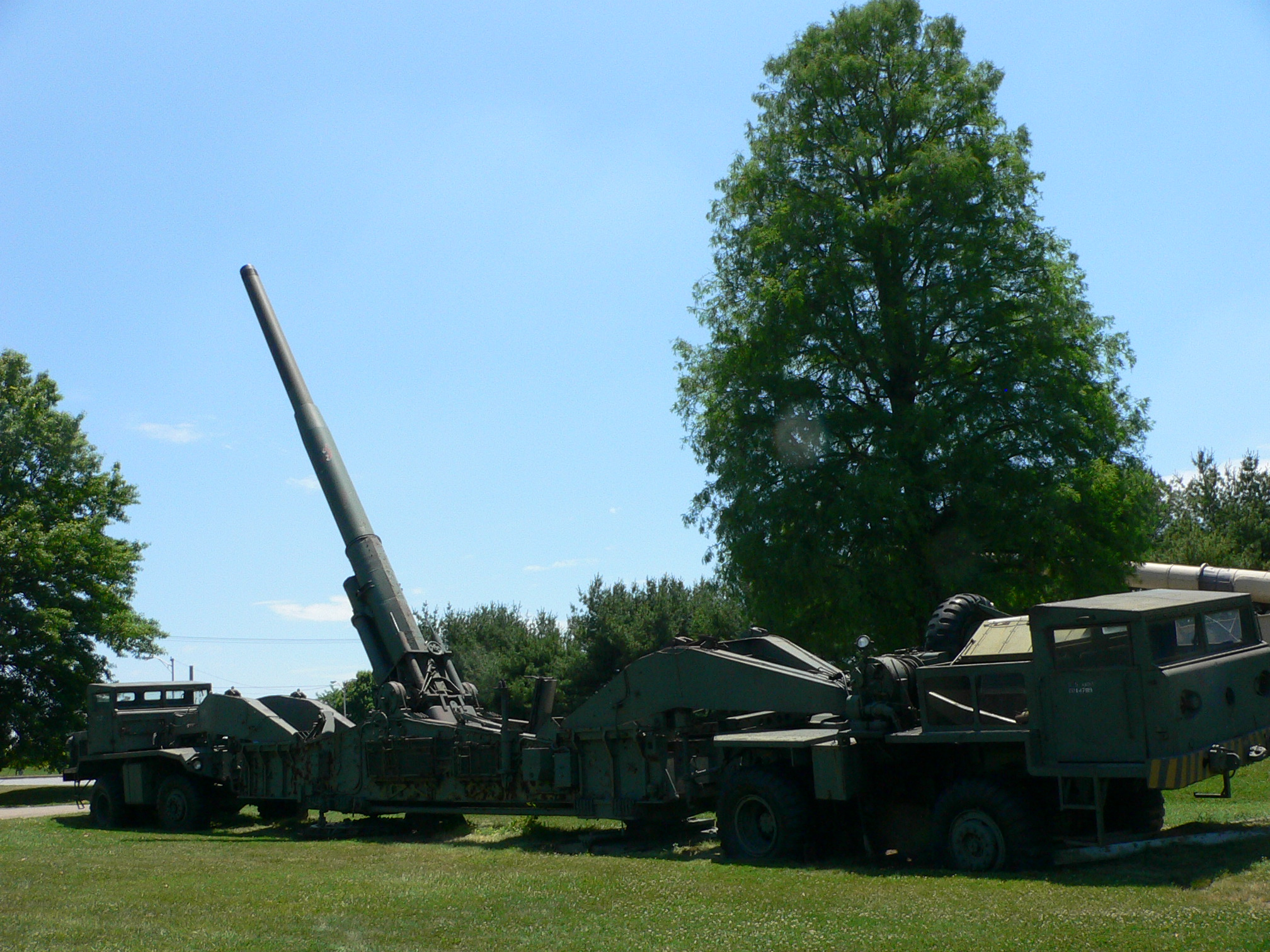 Picture taken by myself, Mark Pellegrini, at the United States Army Ordnance Museum (Aberdeen Proving Ground, MD) on June 12, 2007.